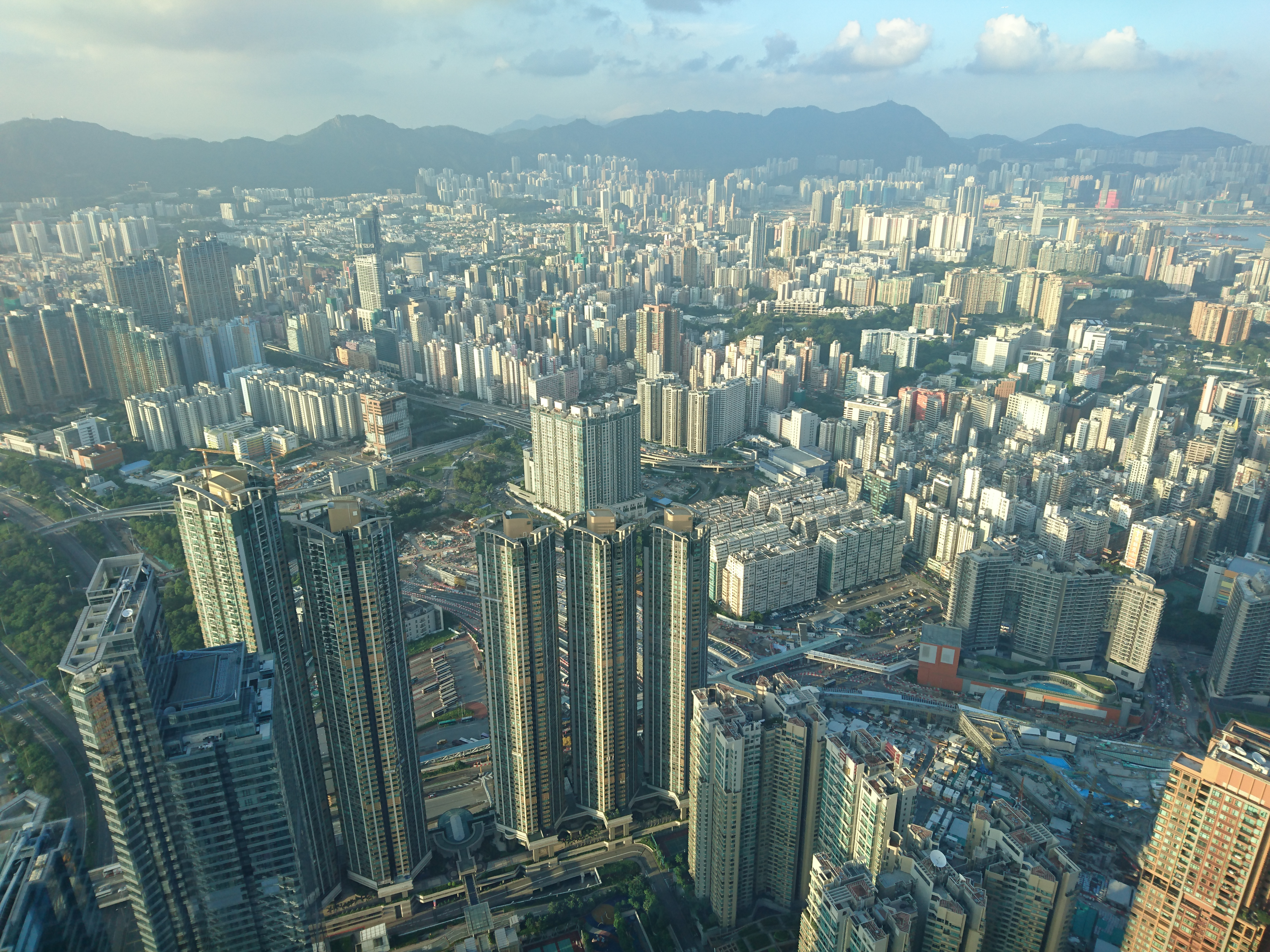 Buildings in Kowloon